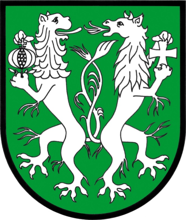 Coat of arms of Kainbach bei Graz, Styria